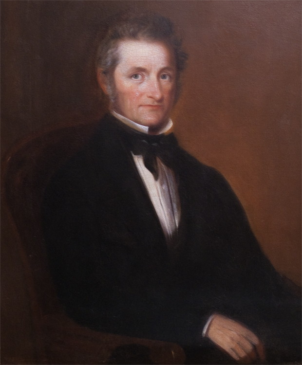 Depicted person: Hiram Capron – Founder of the town of Paris, Ontario